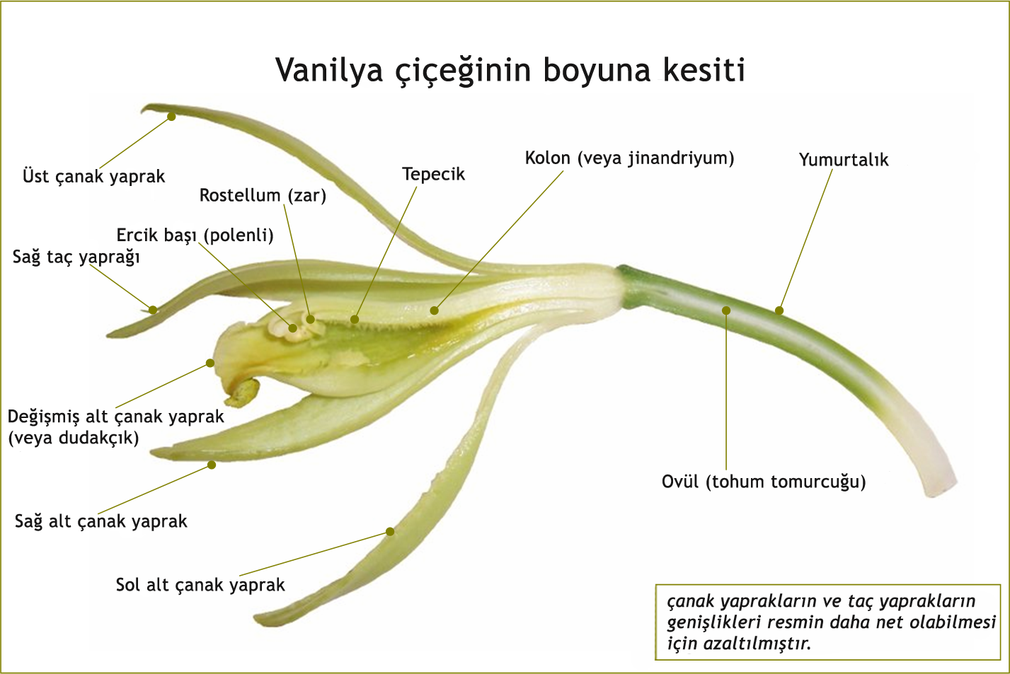 Longitudinal section of a vanilla flower